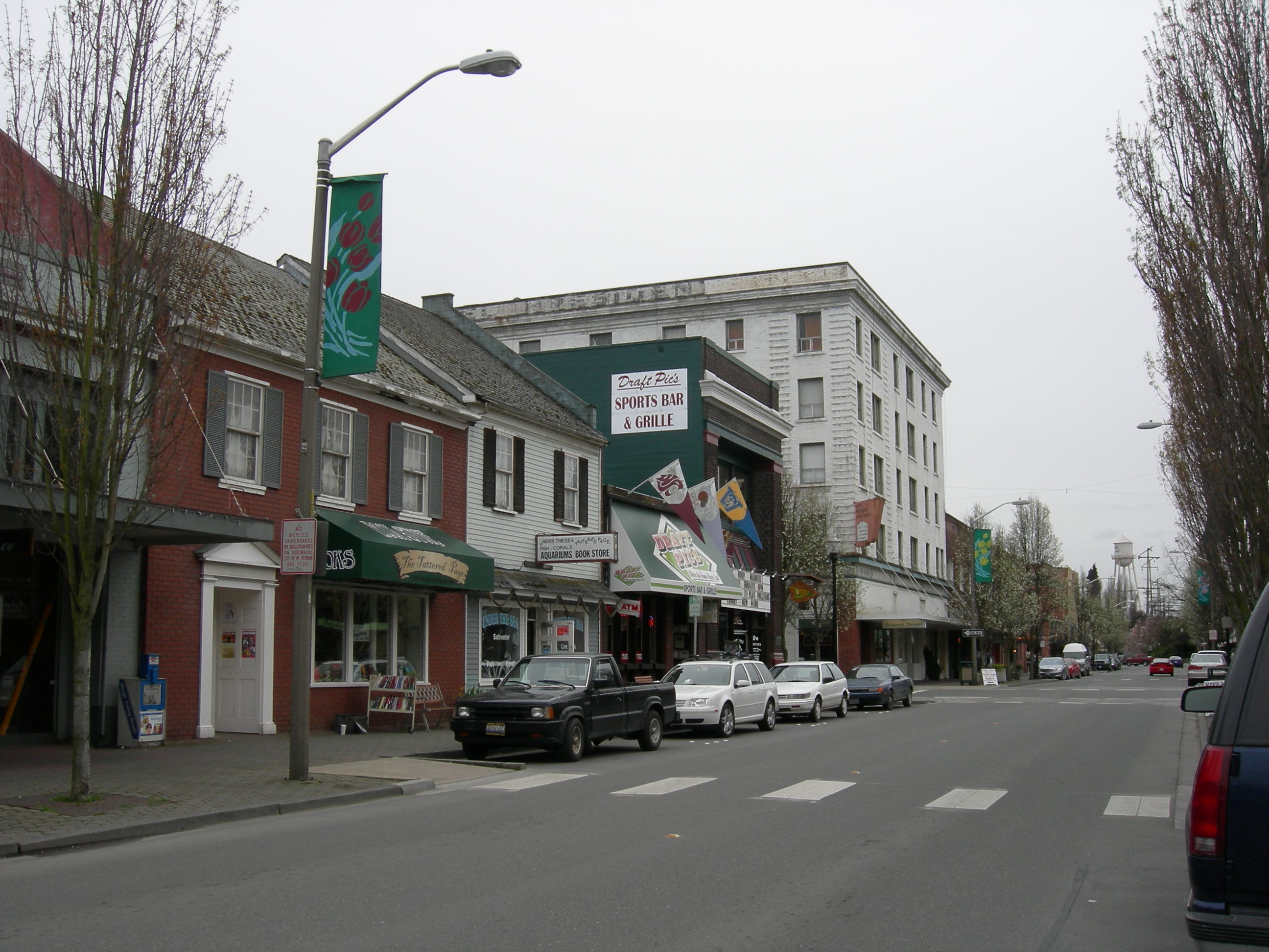 South First Street, Mount Vernon, Washington.